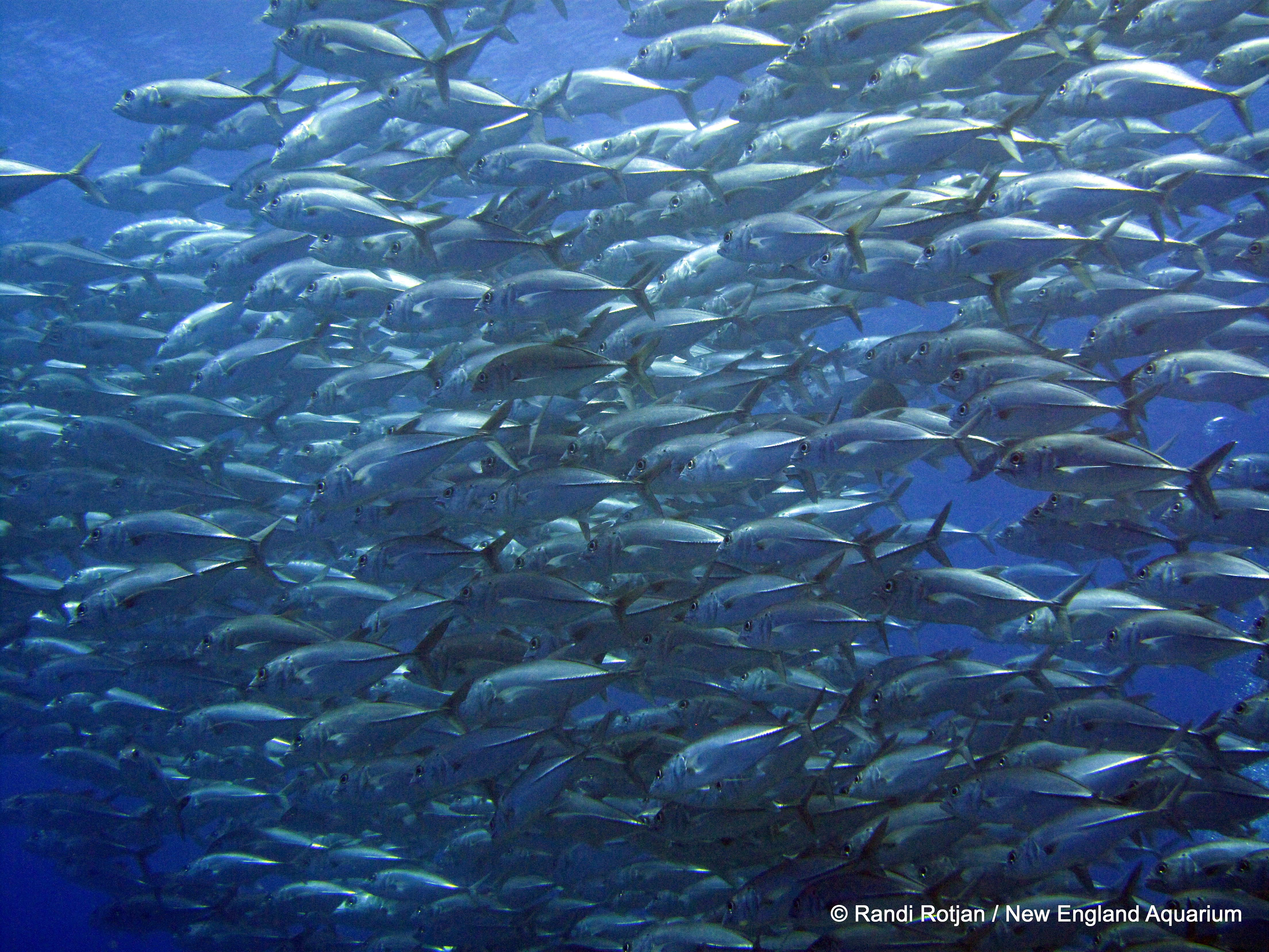 Phoenix Islands Fishes